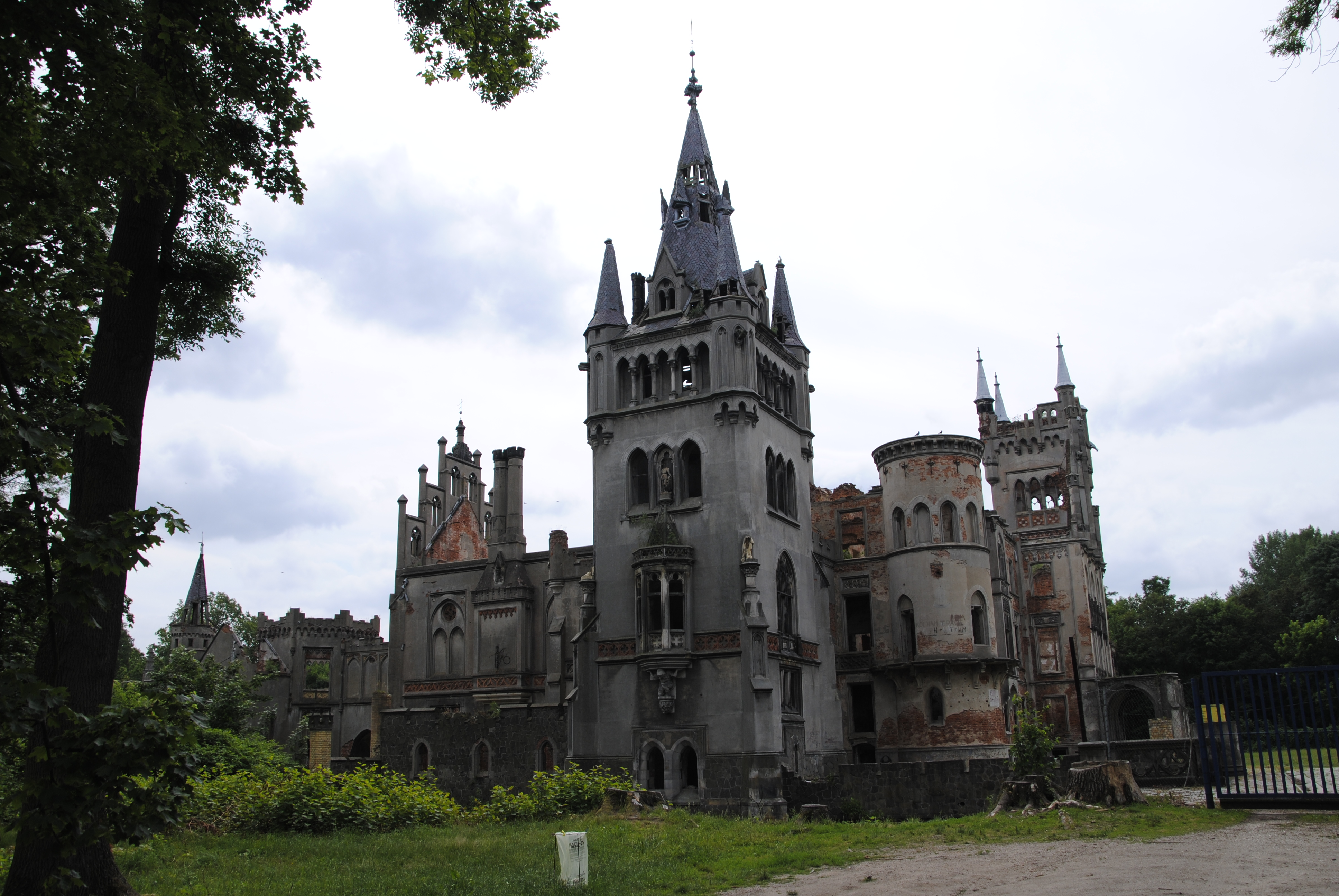 Palace in Kopice, Opole Voivodeship